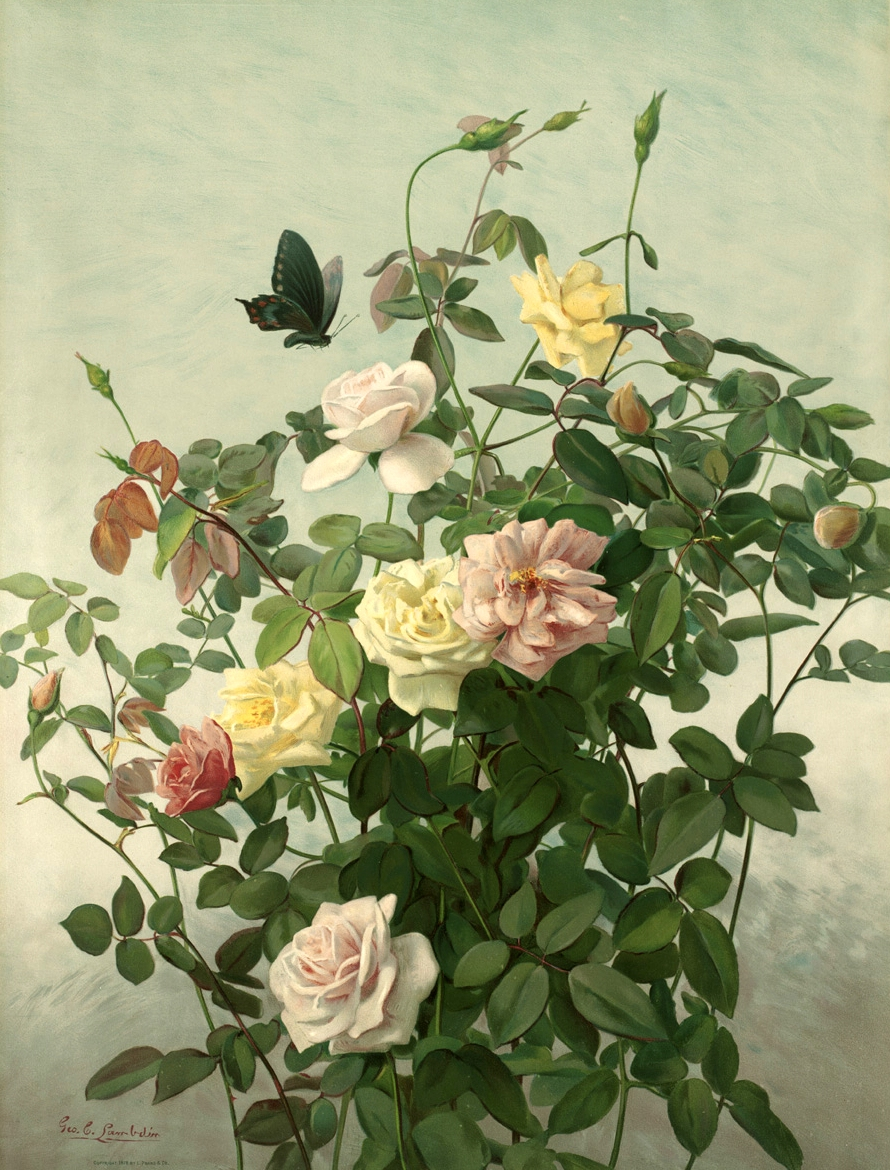 File name: 07_11_000991 Title: June Morning Creator/Contributor: Lambdin, George Cochran, 1830-1896 (artist); L. Prang & Co. (publisher) Date issued: Copyright date: 1878 Physical description note: Genre: Chromolithographs; Still life prints Location: Boston Public Library, Print Department Rights: No known restrictions Flickr data on 2011-08-05: *Camera: Sinar AG Sinarback 54 FW, Sinar m *License: CC BY 2.0 *User: Boston Public Library BPL